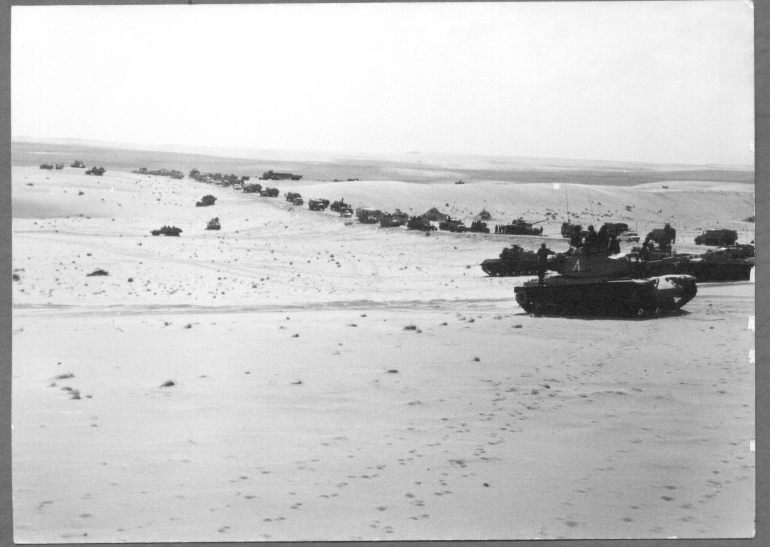 Israeli armor prepares for an attack on the Sinai during the Arab-Israeli War. From the booklet "President Nixon and the Role of Intelligence in the 1973 Arab-Israeli War." For more information, visit